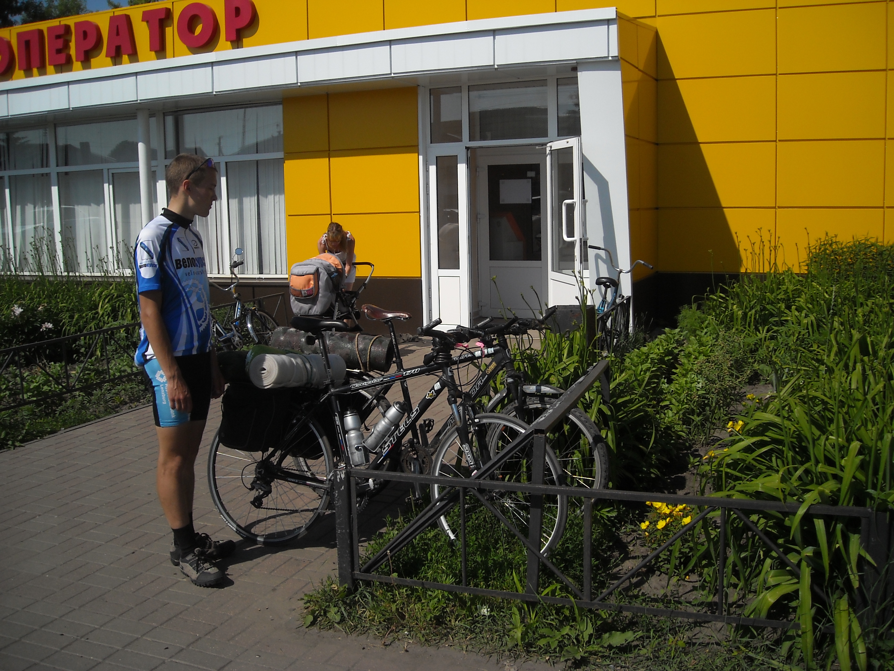 Bicycle parking in Solncevo, Kursk oblast